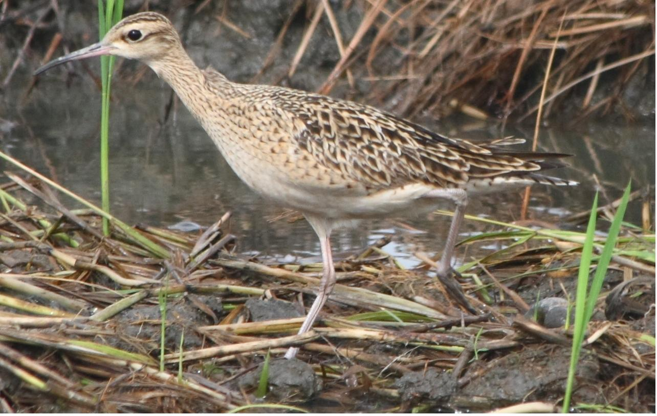 Little Curlew Numenius minutus, Toucheng, Taiwan